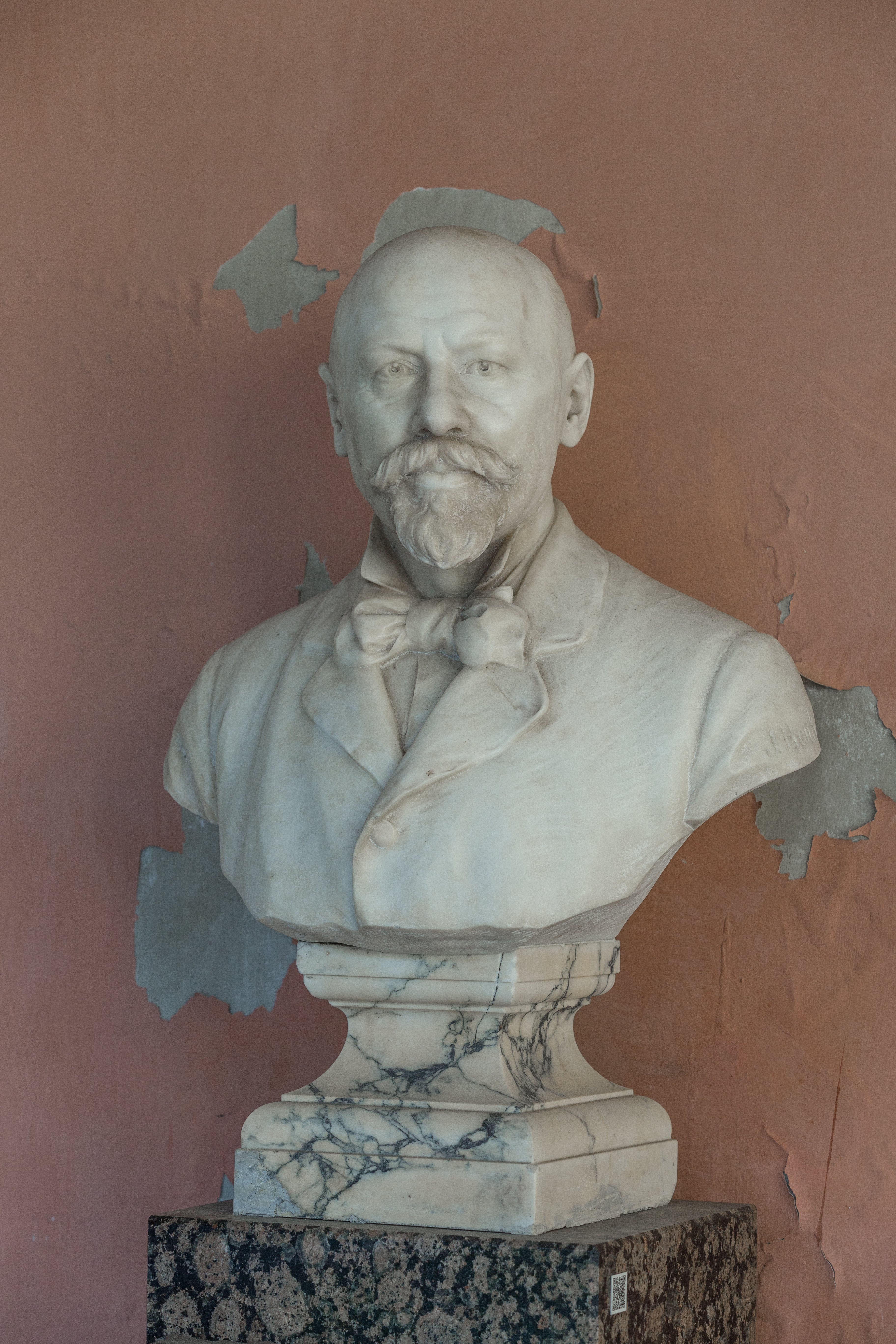 Moriz Kaposi (1837-1902), physician, bust (marble) in the Arkadenhof of the University of Vienna, (Maisel# 118). Artist: Johannes Benk (1844-1914), unveiled 1908, was made but not unveiled during lifetime of Kaposi.